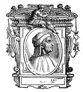 Illustratio from "Le Vite" by Giorgio Vasari, edition of 1568. For the artist portrayed see filename